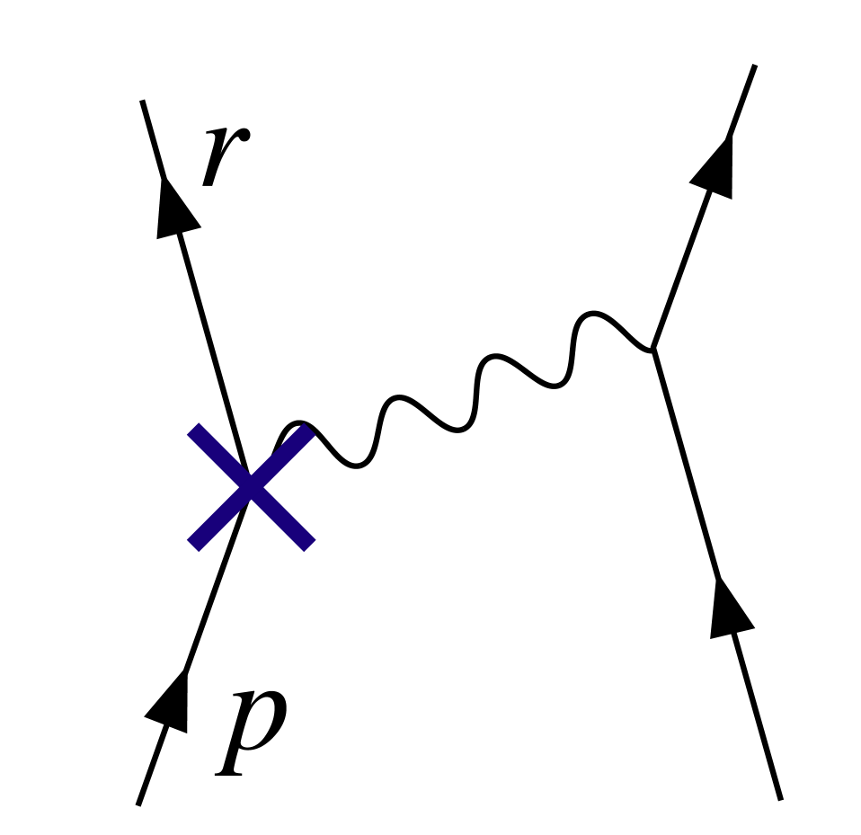 A counterterm cancels a loop divergence in QED. Drawn by Matt McIrvin.